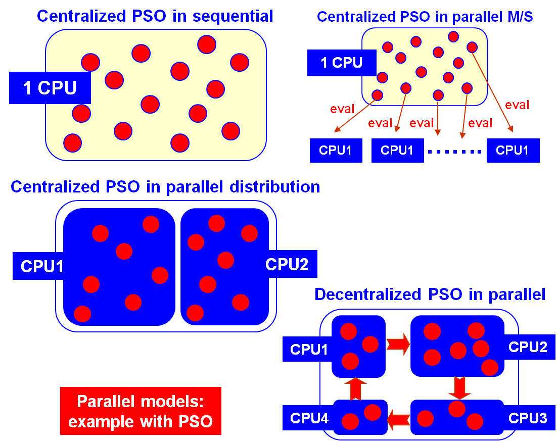 Example of parallel models of metaheuristics done with PSO